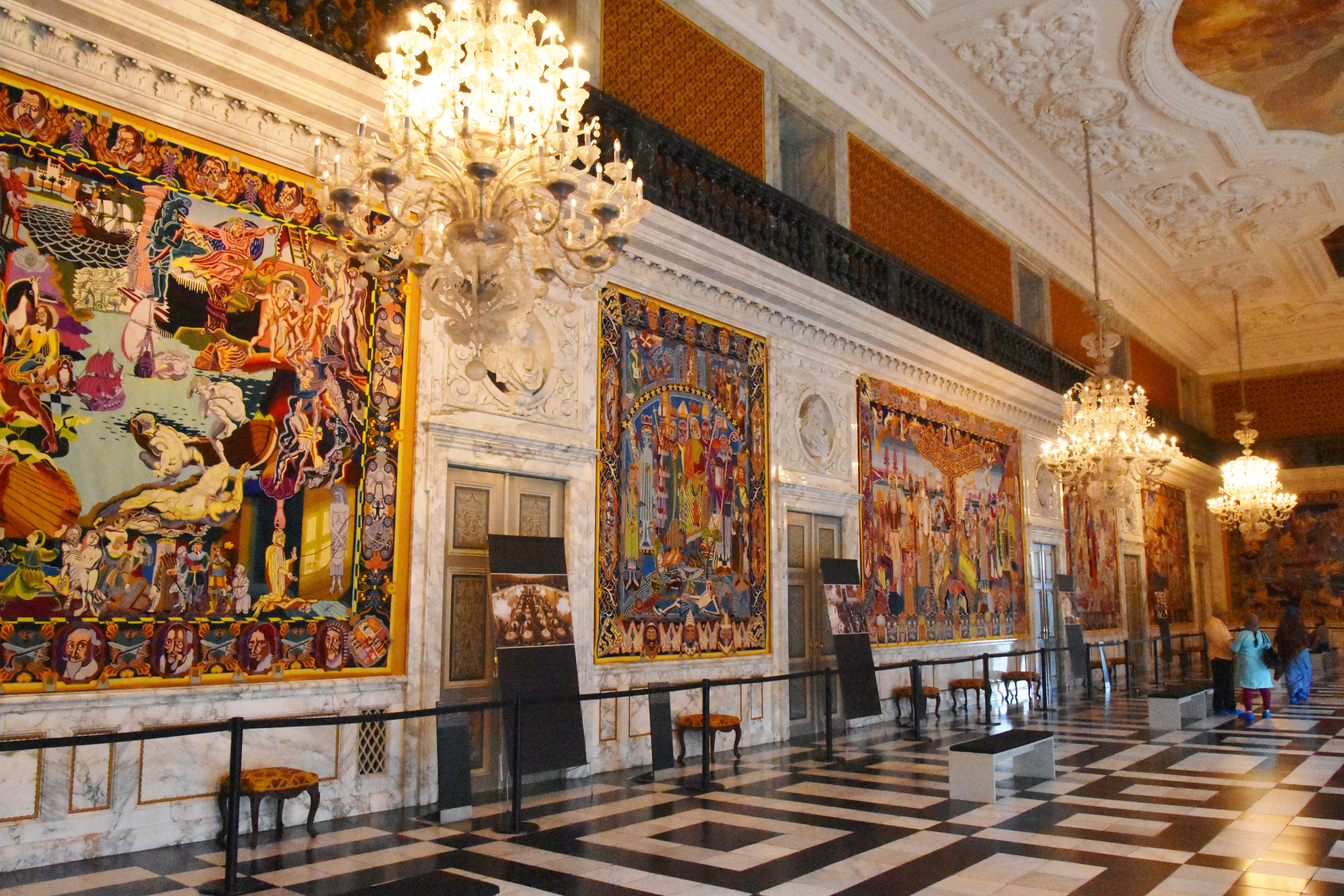 Christiansborg Palace, Copenhagen (27)